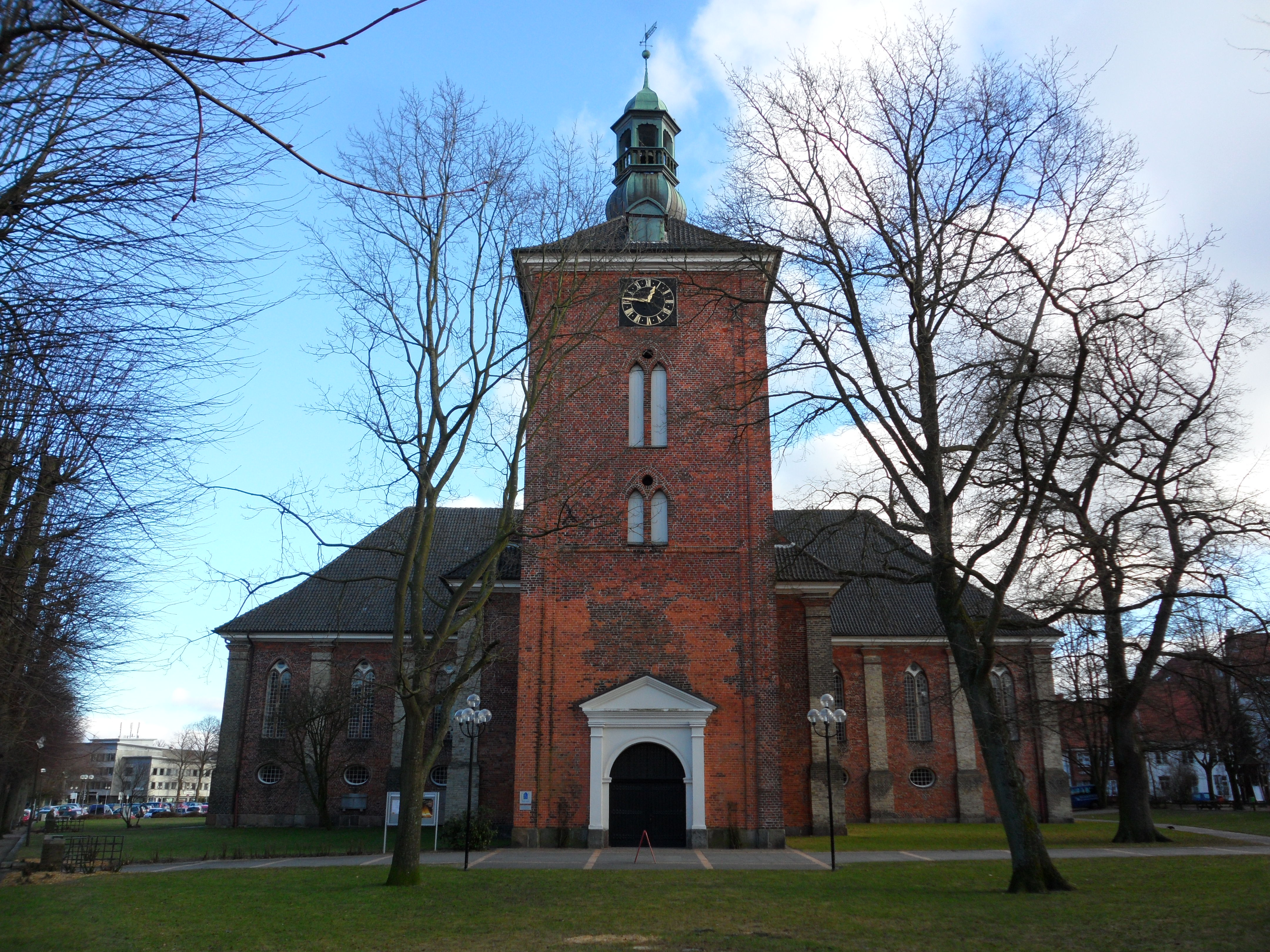 Frontside of the Christkirche